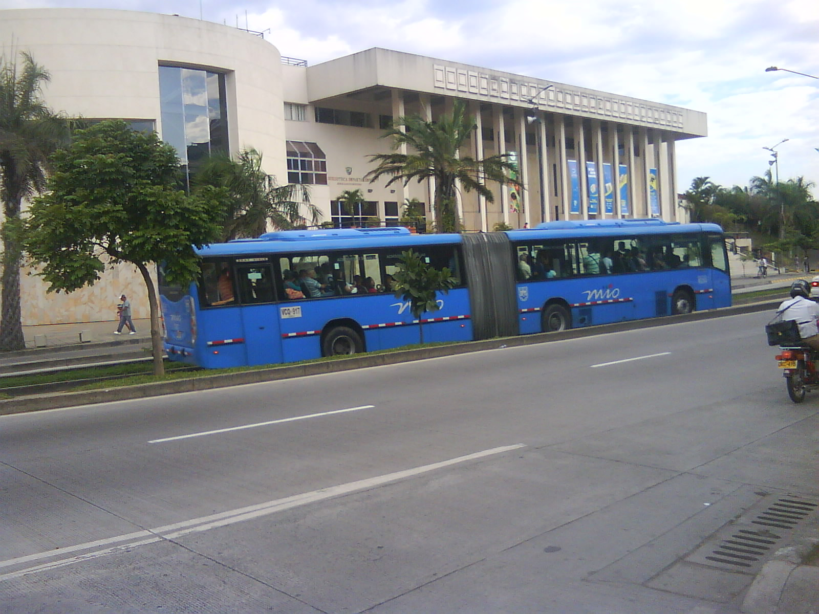 Photo of the "Biblioteca Departamental Jorge Garcés Borrero" (Library) from one side while is passing a MIO Bus. (Santiago de Cali, Colombia)